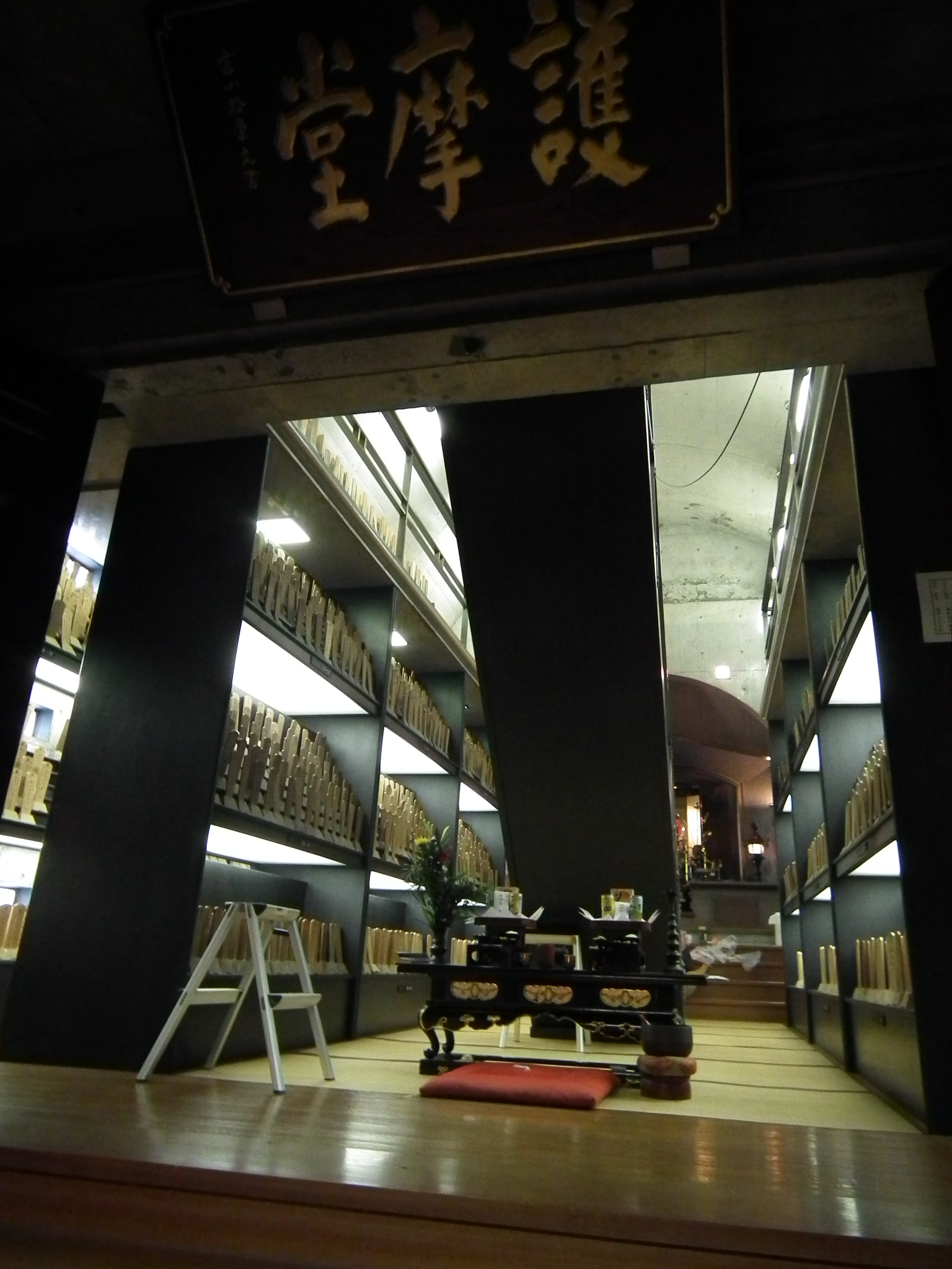 Puja Hall at Iyadaniji Temple in Kagawa, Japan